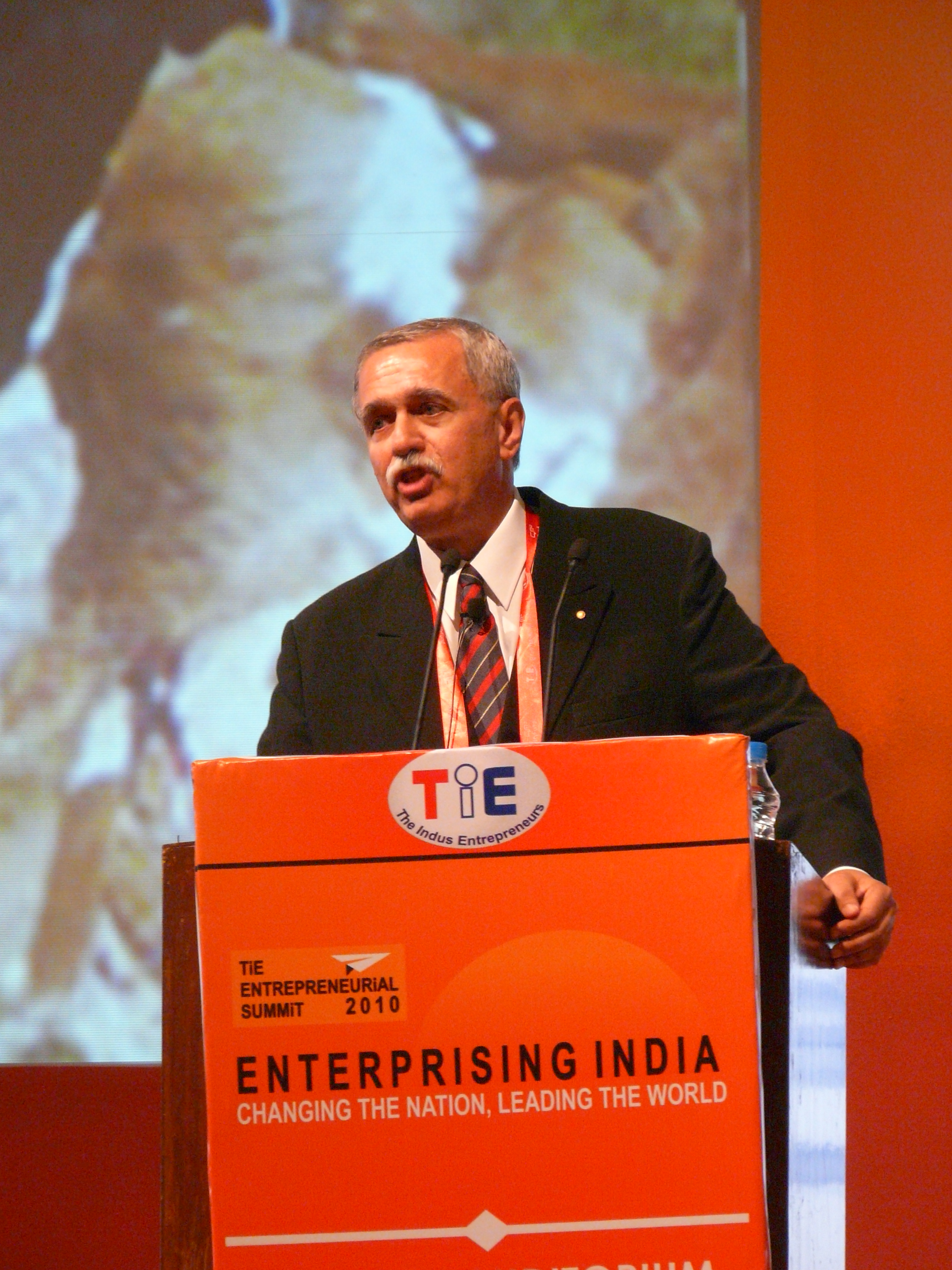 Philip Wollen - Australian philanthropist, Animal rights activist